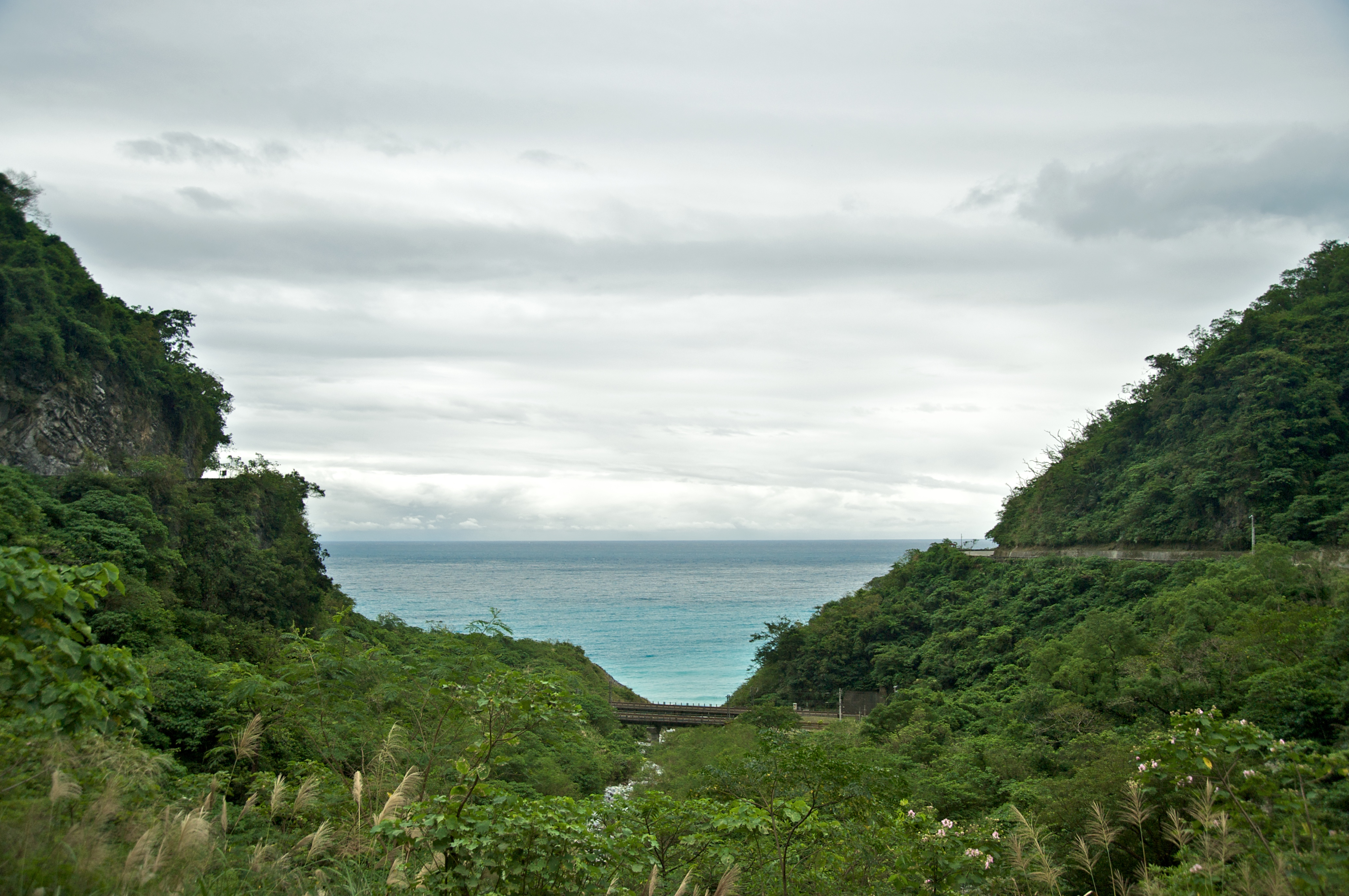 SuHua Highway, a scenic drive on the east coast of Taiwan